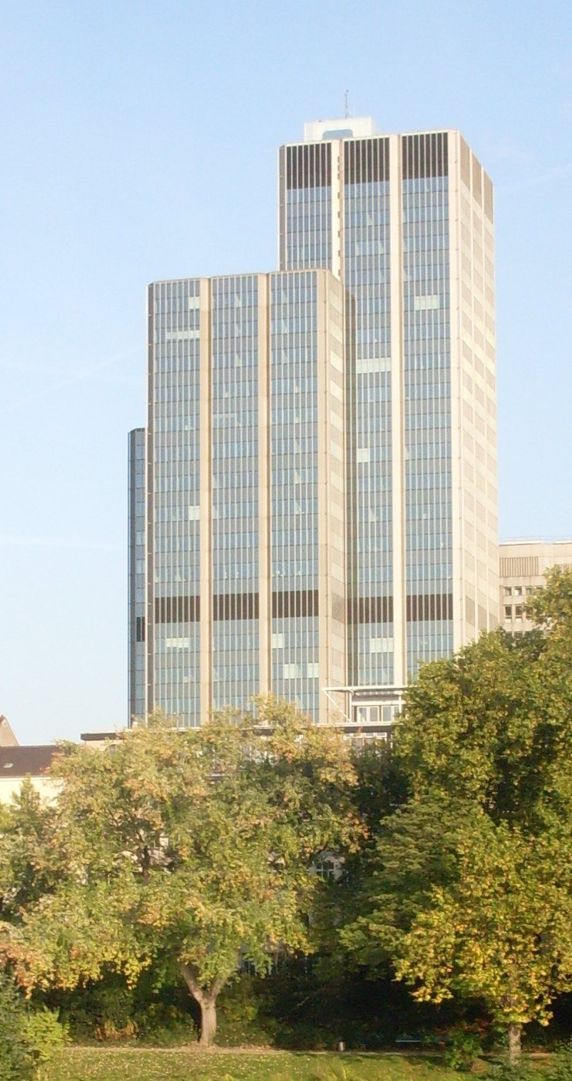 LVA-Hochhaus, High Rise Building in Duesseldorf Germany